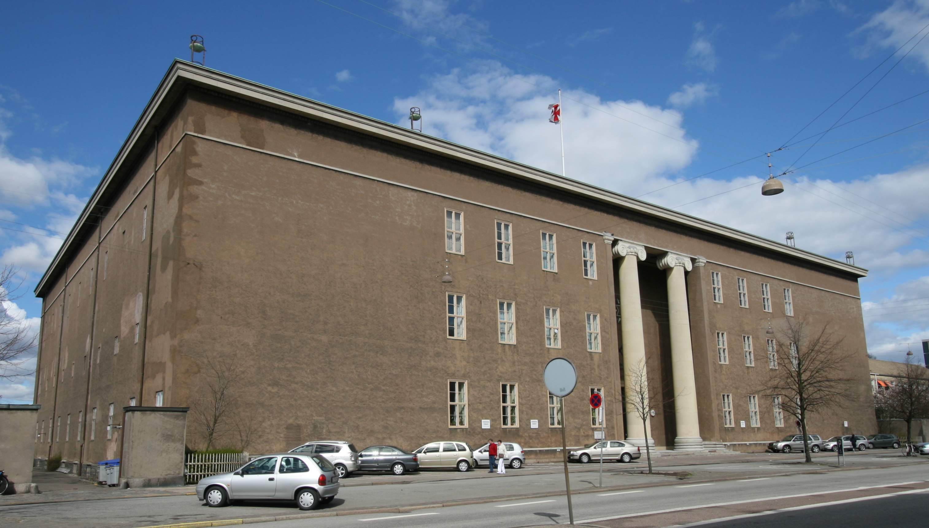 The Freemason Lodge, Copenhagen, Denmark (front)